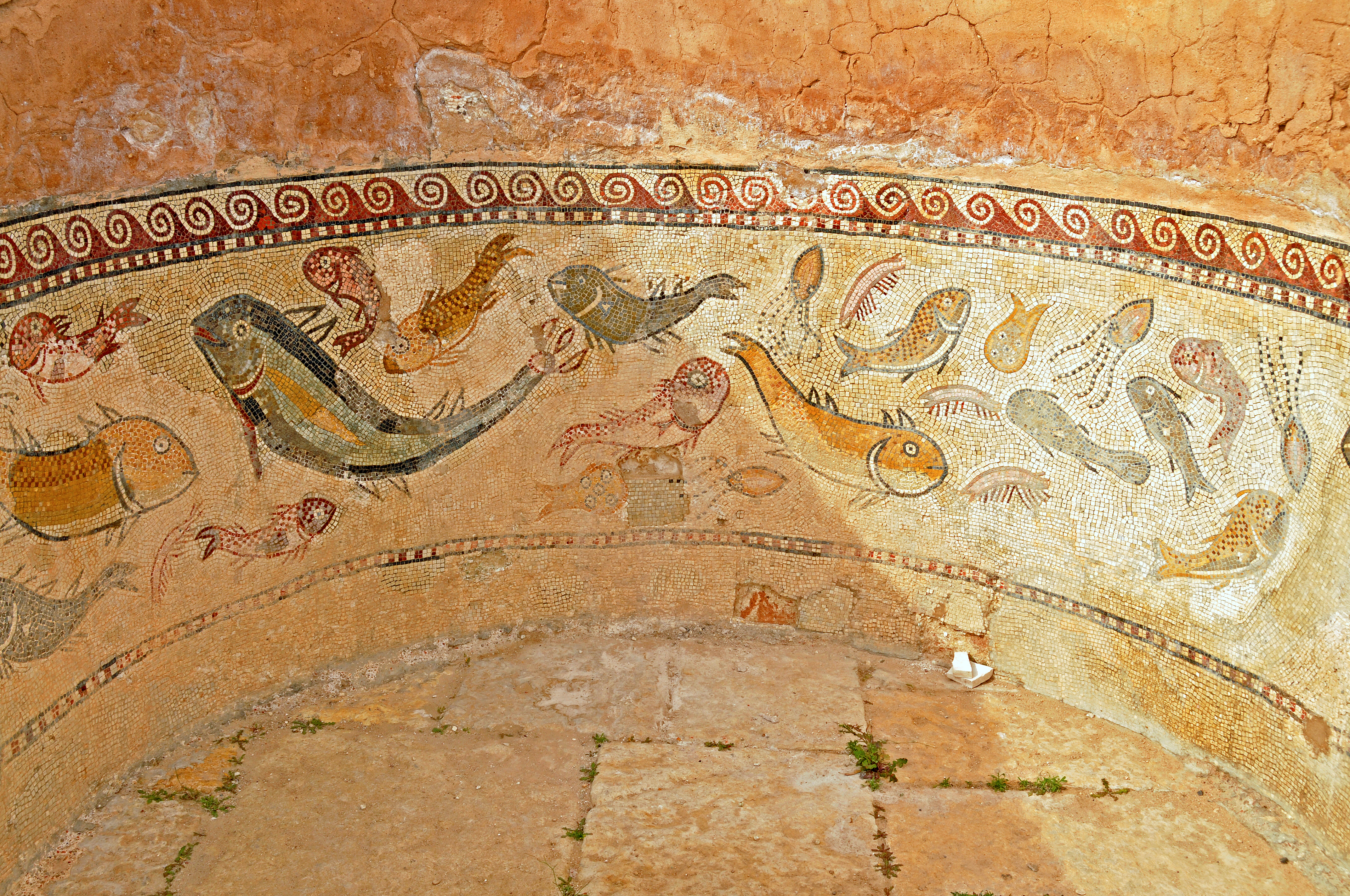 Pool in a private bath of Sbeitla decorated with mosaics of fish and sealife, from 4th-5th century AD